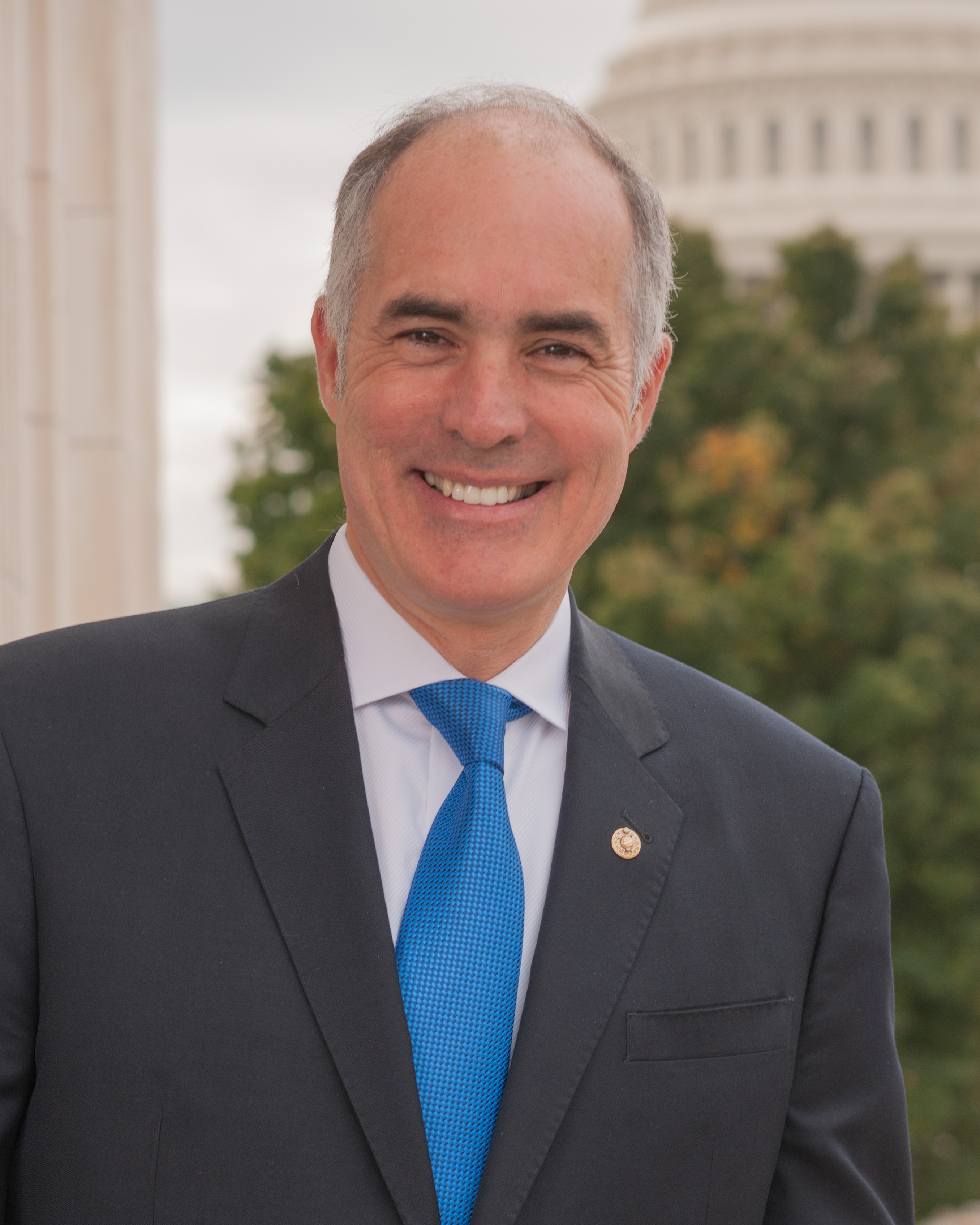 Bob Casey Jr.'s official photo